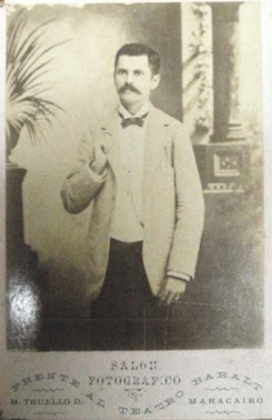 A portrait and advertisement for Trujillo's photography services; this photograph was displayed in the Baralt Theatre and around Plaza Baralt in Maracaibo in the 1890s and early 20th century. It was re-released from preserved archives, which were protected by Trujillo's family, in 2013.